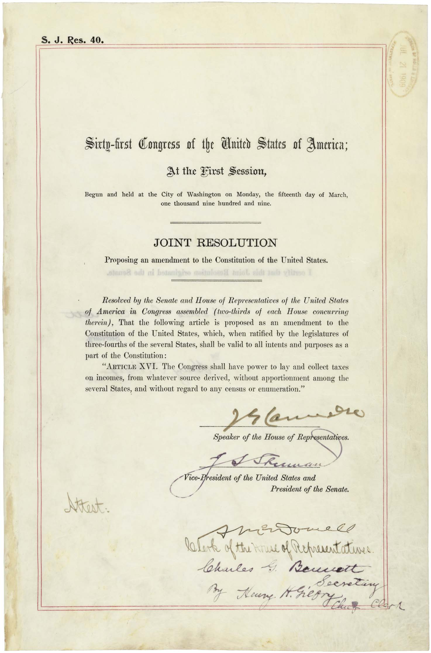 16th Amendment of the United States Constitution.